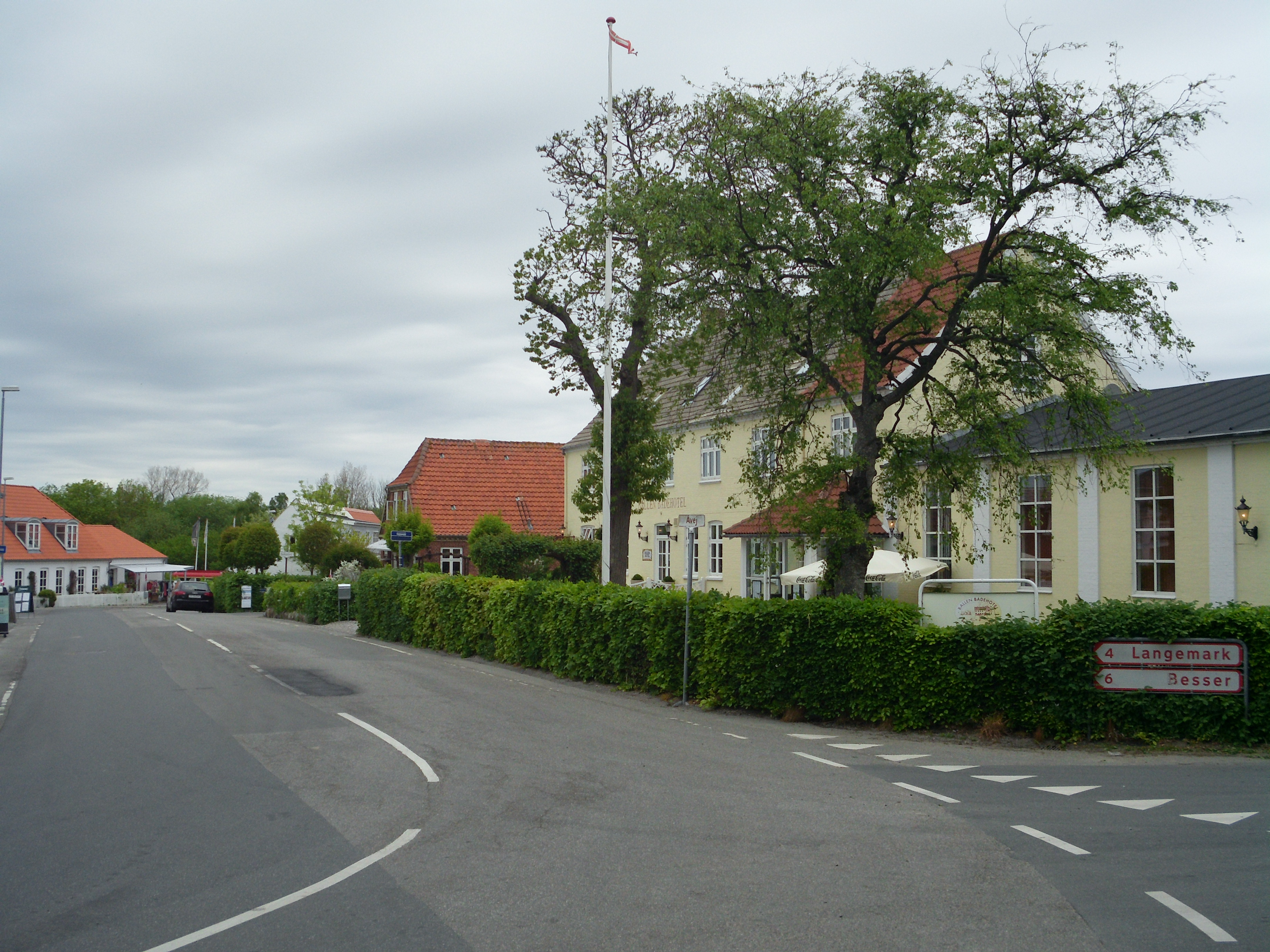 Main street in the center of Ballen, a village on the island of Samsø in Denmark.